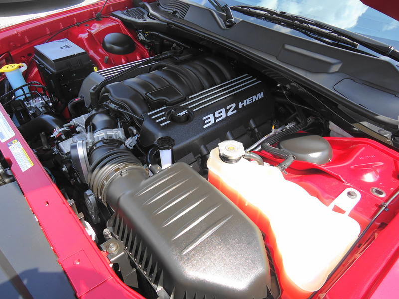 Dodge Challenger SRT-8 (2011) - 6.4L 392 Hemi V8 Engine